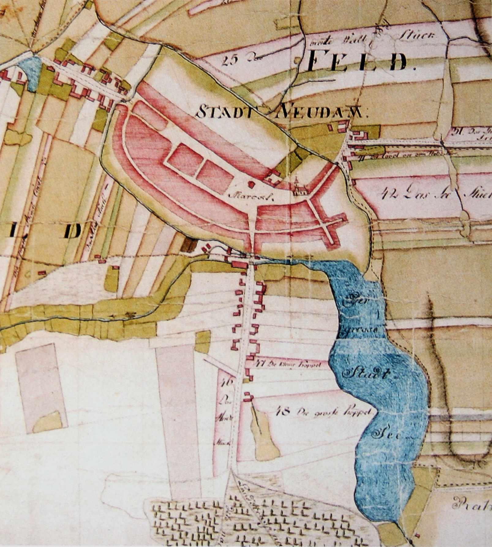 Map of Dębno (Neudamm) in year 1772